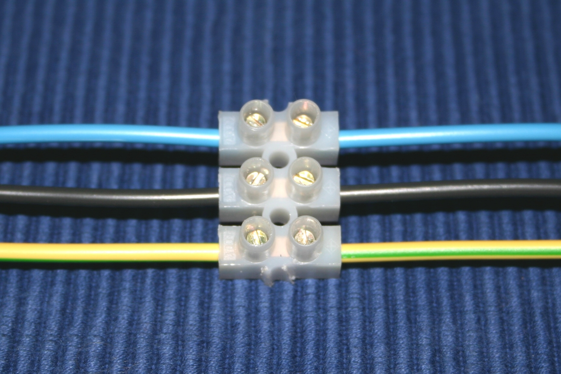 Screw terminals joining "stranded" wires.